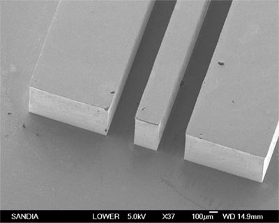 A LIGA-fabricated coplanar waveguide with a thickness of 517 µm.